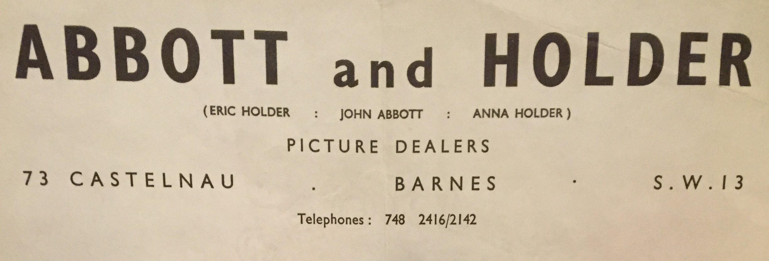 Letterhead, as used on for a receipt from Abbott and Holder, dated 21 August 1969.